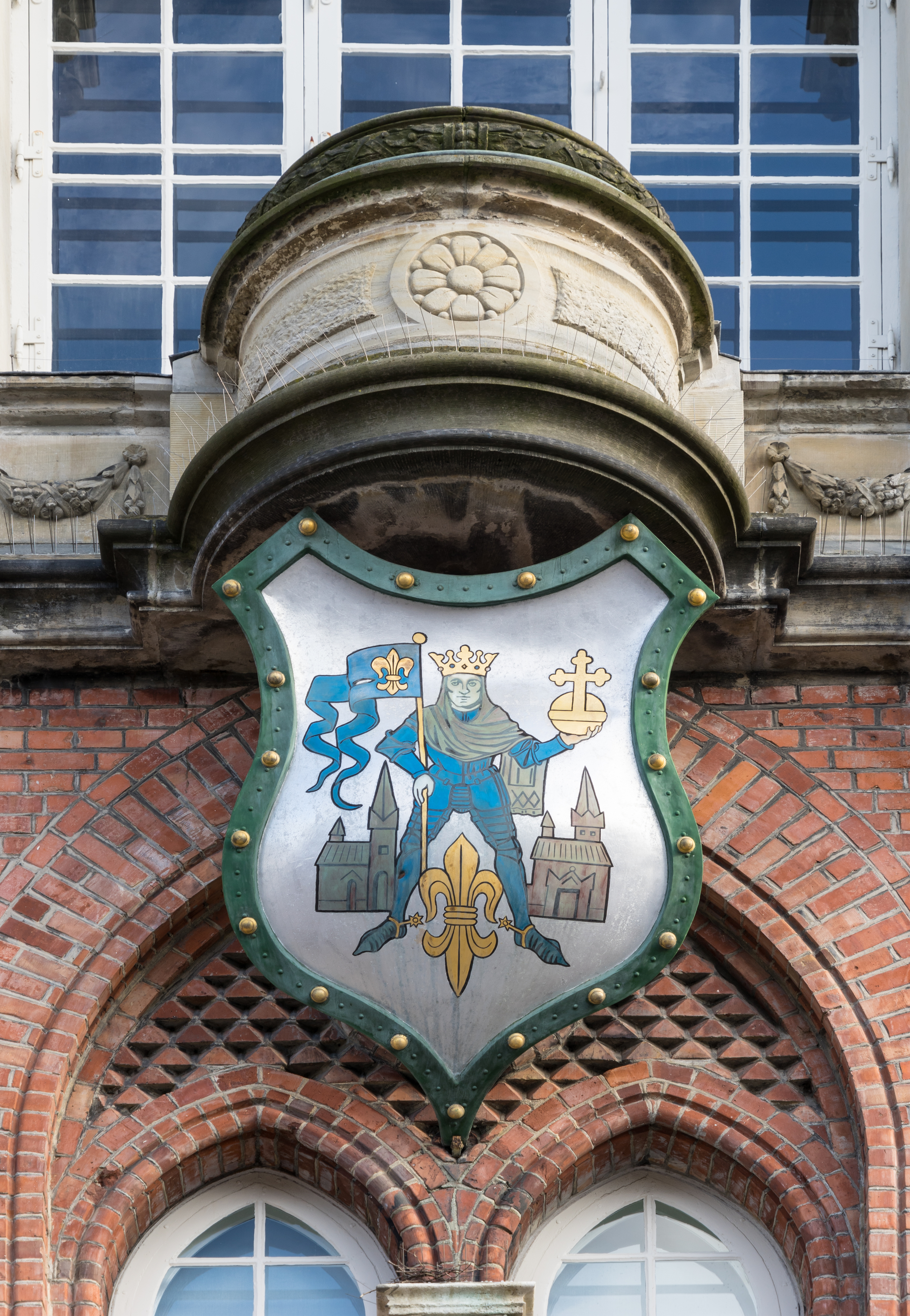 The coats of arms of the city, Town hall of Odense, Denmark.